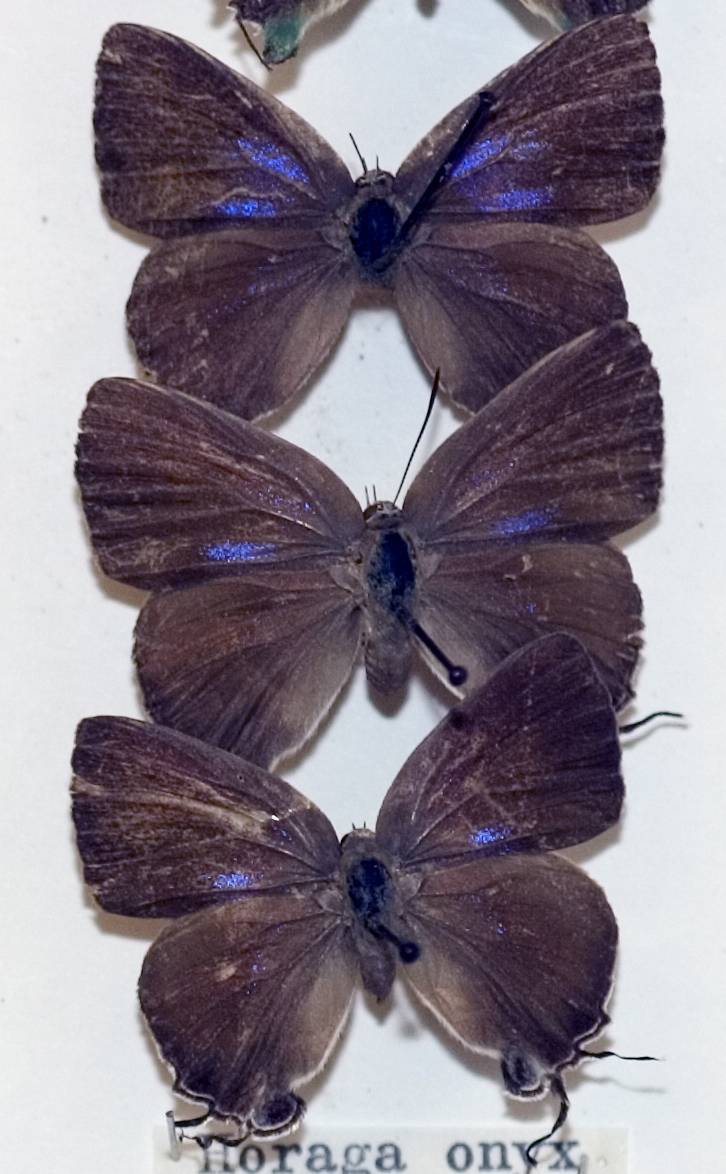 Common Onyx (Horaga onyx)